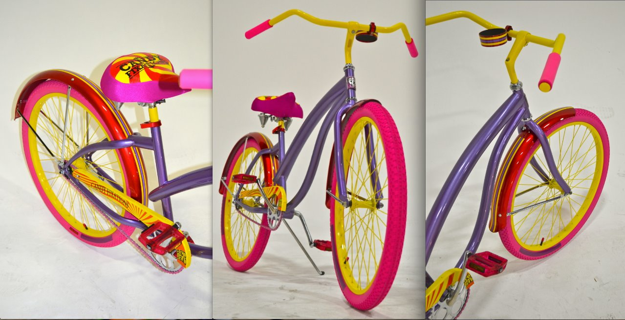 Villy Custom Fashion Bicycles for TIGI hair products, Candy Fixation